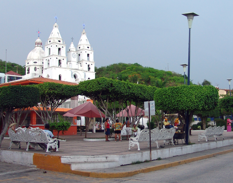 Town square in Cihuatlán, Mexico. (Jalisco state) 2005 - P. Alejandro Díaz